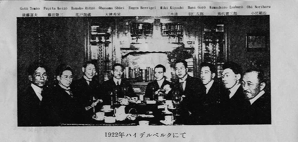 Eugen Herrigel's Seminar held in Ohazama Shuei's family appartment, in Heidelberg (1922). From left to right: Gotô Tomio, Fujita Keizô, Hanako Ryûzô, Ôhazama Shûei, Eugen Herrigel (center right), Miki Kiyoshi, Mori (Hani) Gorô, Kumashiro Isaburô, Obi Noriharu.